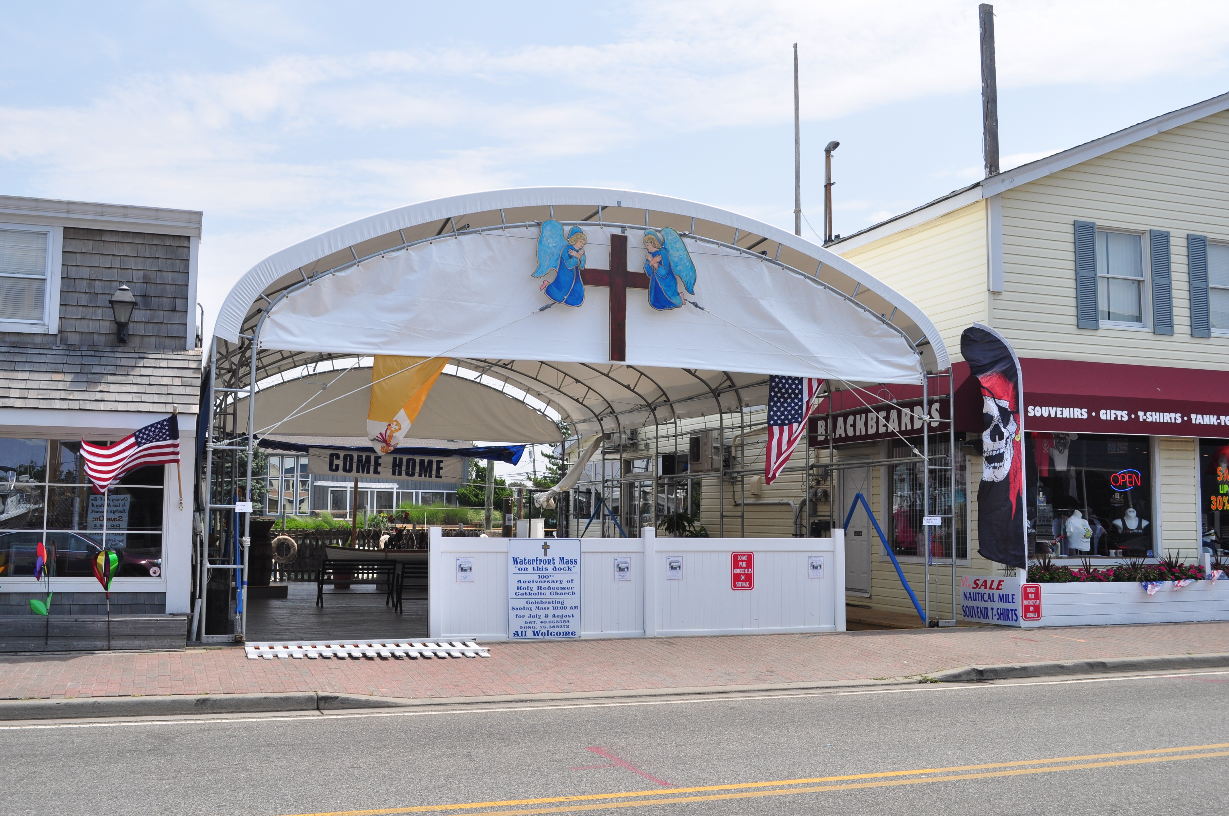 Waterfront Catholic chapel, Nautical Mile, Freeport, New York.